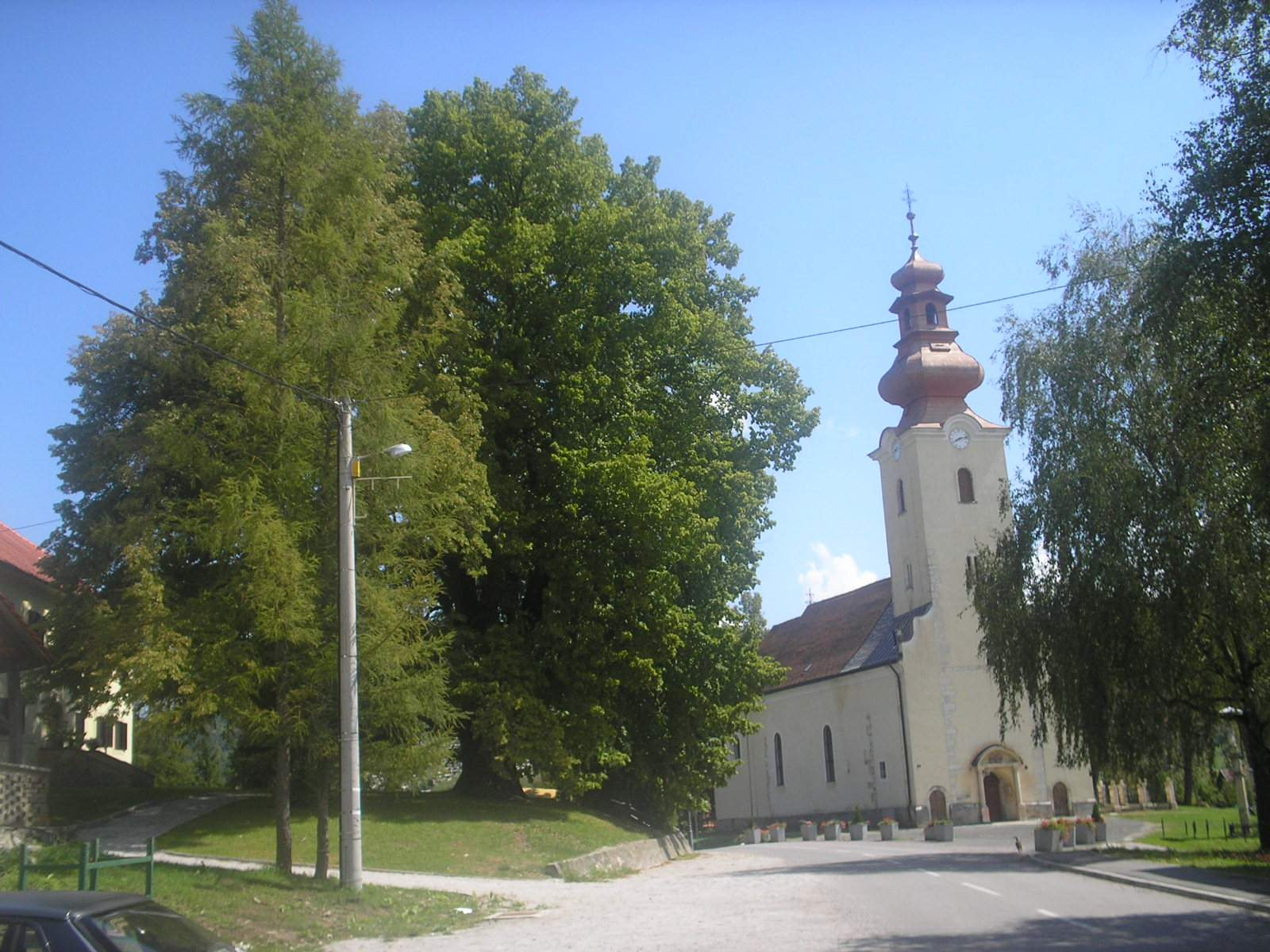 Village of Bednja, CroatiaHrvatski: Bednja, Varaždinska županija